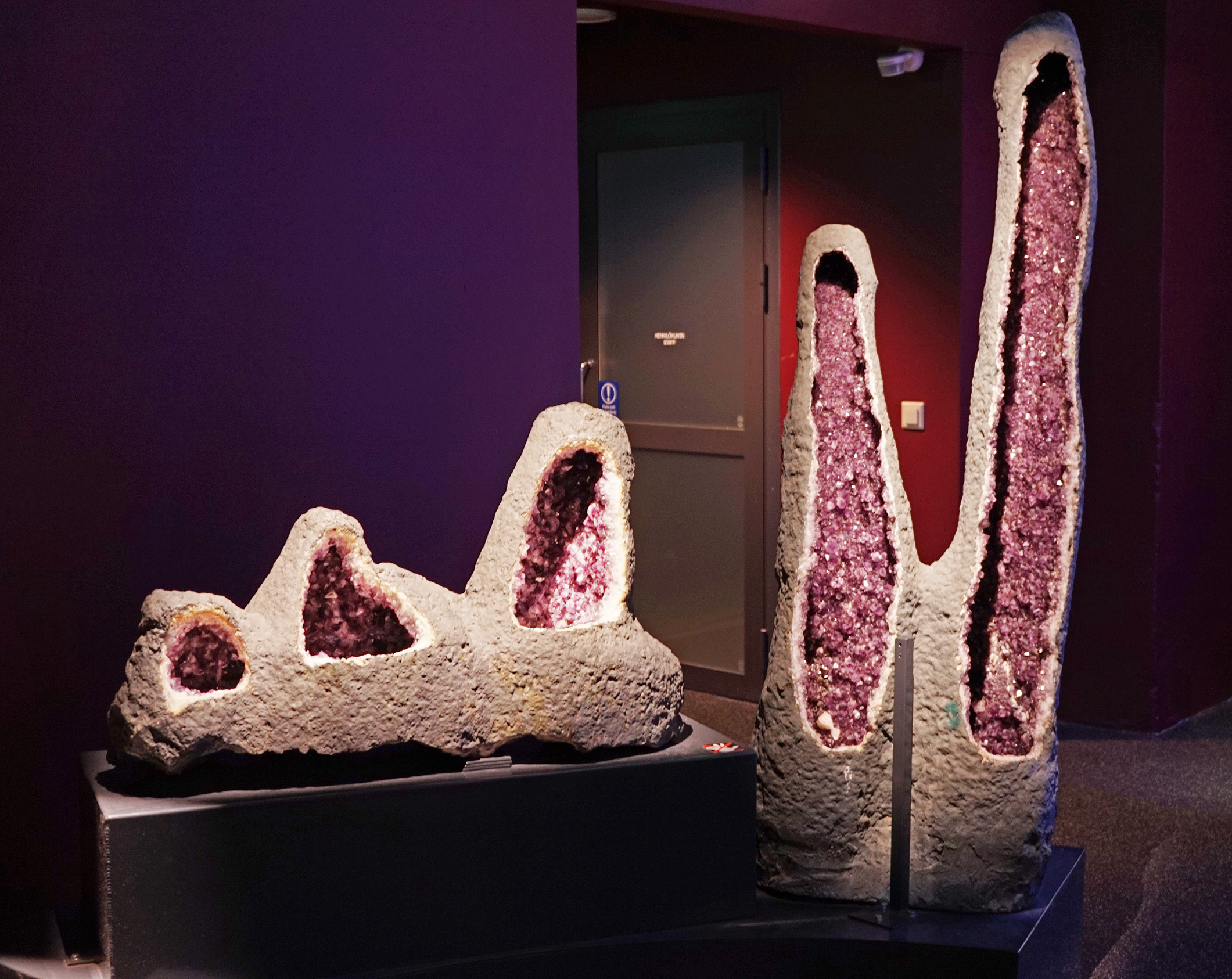 Tampere Mineral Museum.